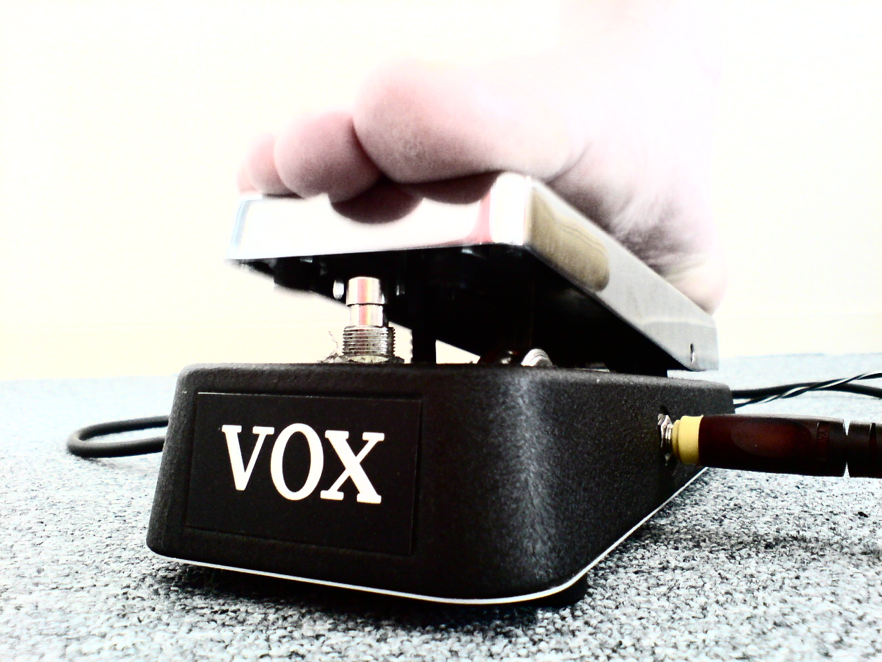 WahWah yer life VOX Wah Wah pedal — may be made in USA by Thomas Organ Company. See VOX logo [1] References ↑ Original Wah. Leotard Skynyrd official HP. (auto translation in English)